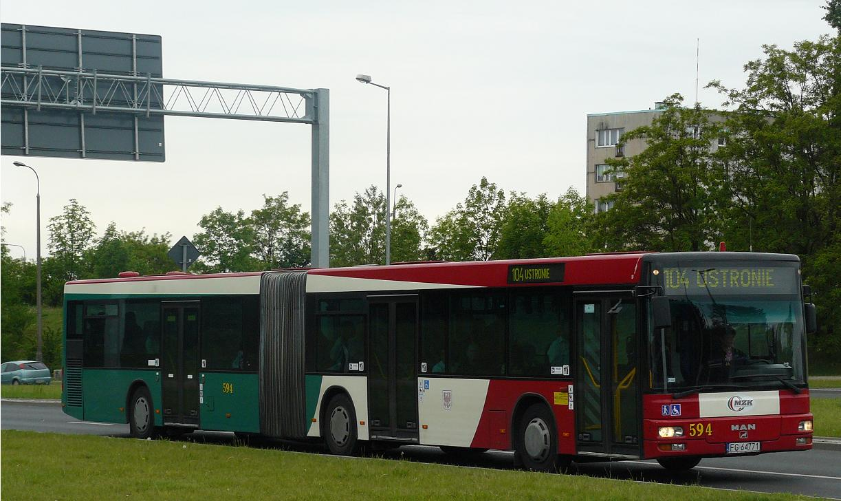 MAN NG313 bus (#594) on Al. Odrodzenia, Gorzów Wielkopolski, Poland. Built 1999, MZK Gorzów Wielkopolski operator.